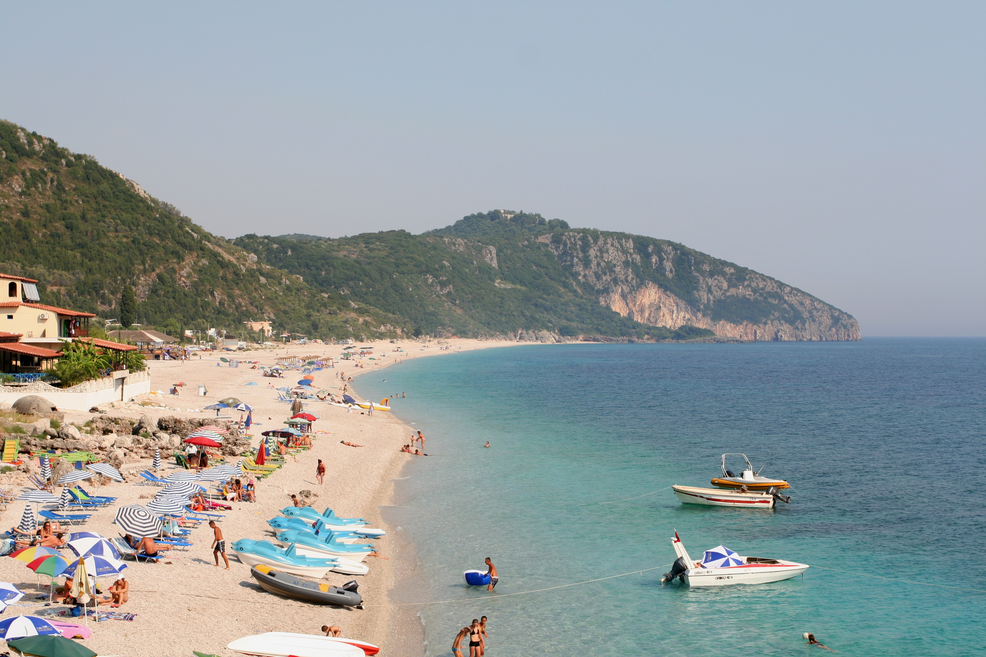 Beach on the village of Dhërmi, Himara, Albania